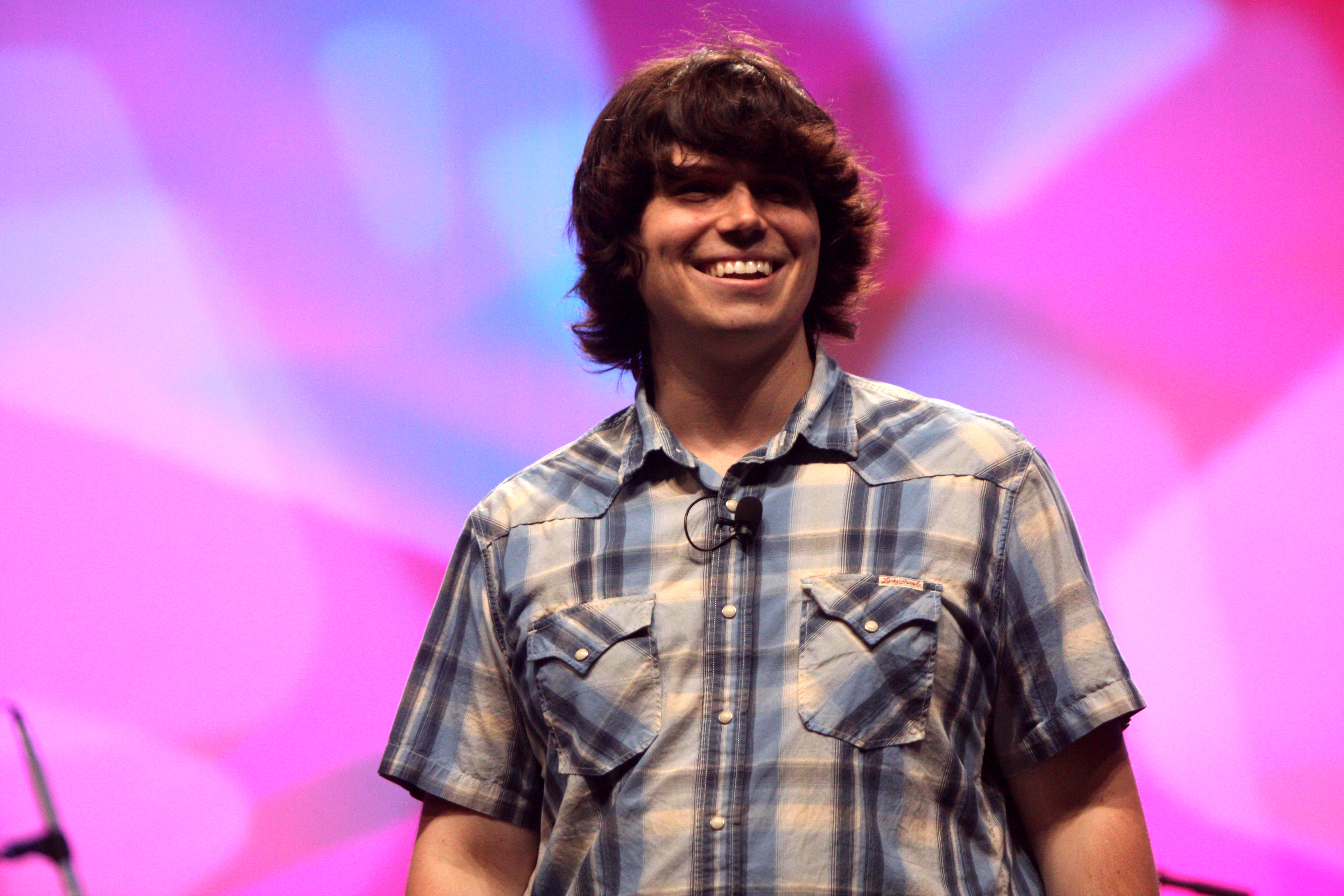 Michael Gallagher speaking at VidCon 2012 at the Anaheim Convention Center in Anaheim, California.